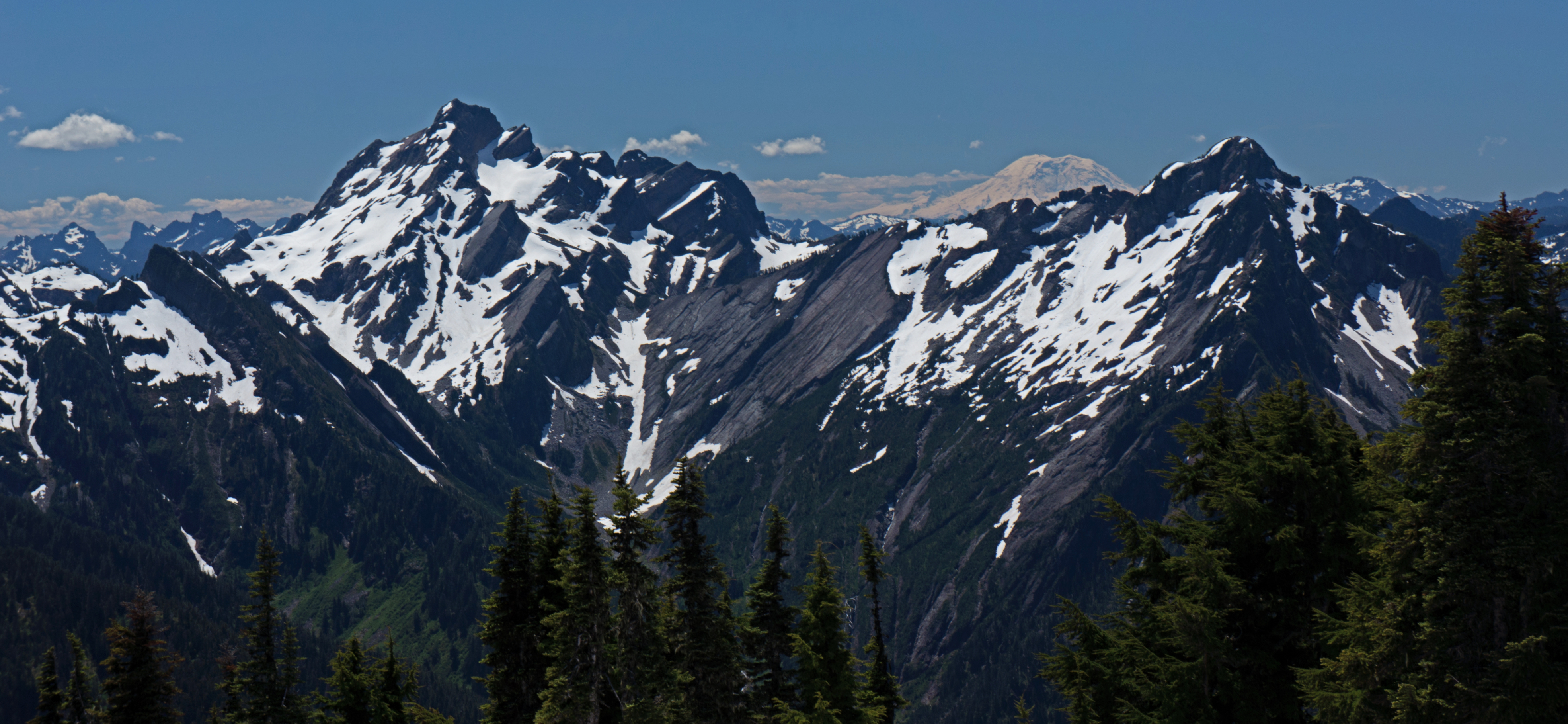 Del Campo Peak and Morning Star Peak, with Mt. Rainier in the far distance